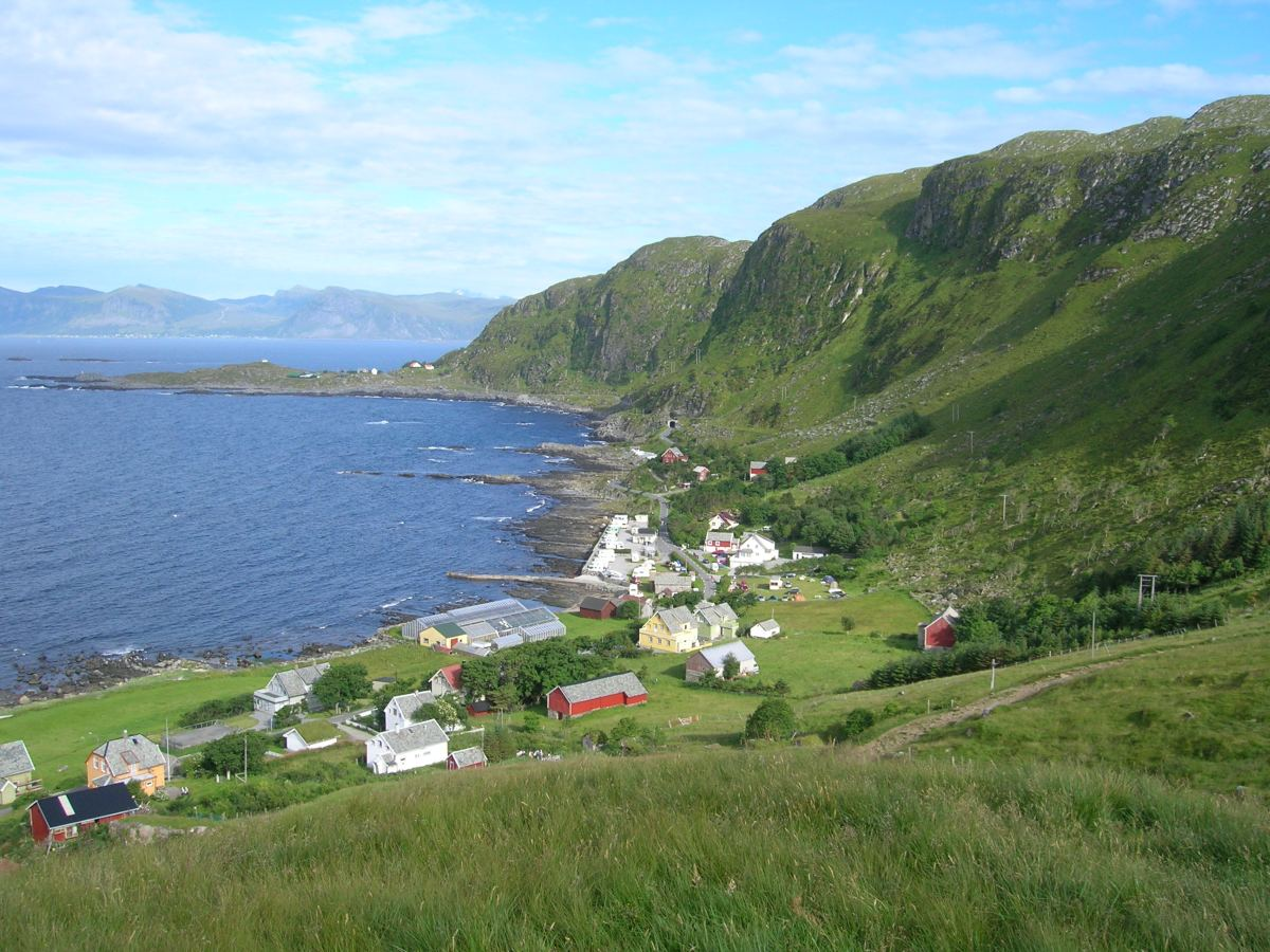 village Goksøyr on the island Runde in Møre og Romsdal, Norway. Island Hareidlandet in the background, the fjord between Runde and Hareidlandet is Rundafjorden